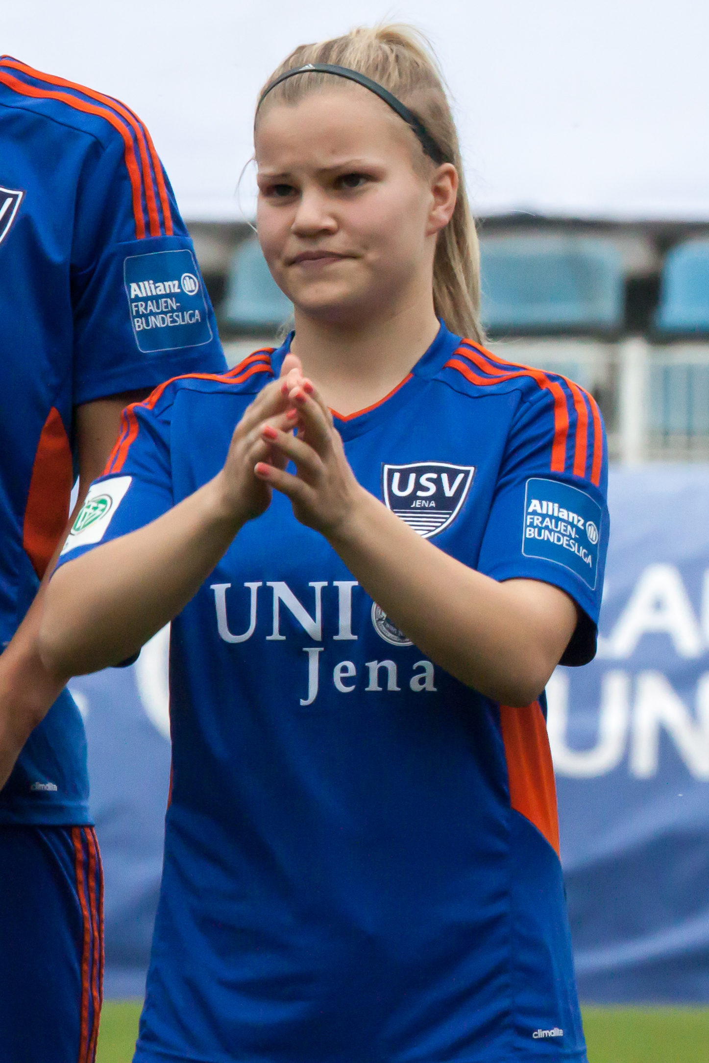 German Women Bundesliga soccer game: FF USV Jena vs. TSG 1899 Hoffenheim, 2014-10-11, at Ernst-Abbe-Sportfeld Jena.